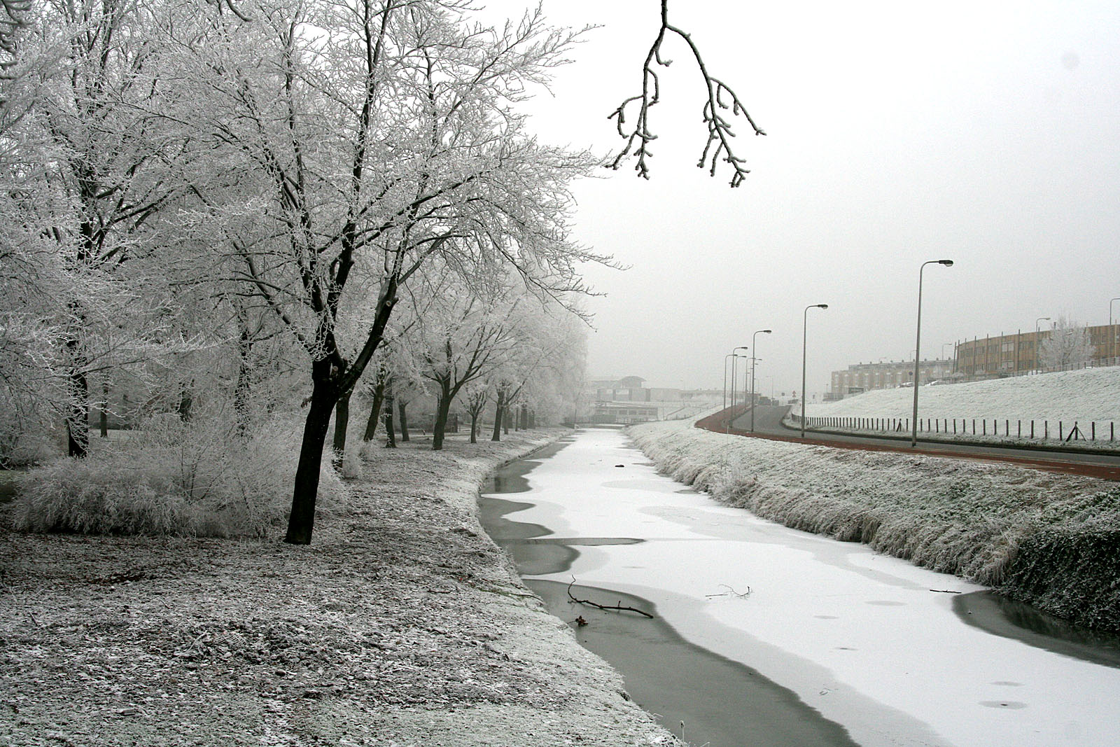 A day with frozen fog in Ridderkerk (Bolnes), The Netherlands. A sideview of a park where ice, trees and grass are covered with frozen fog